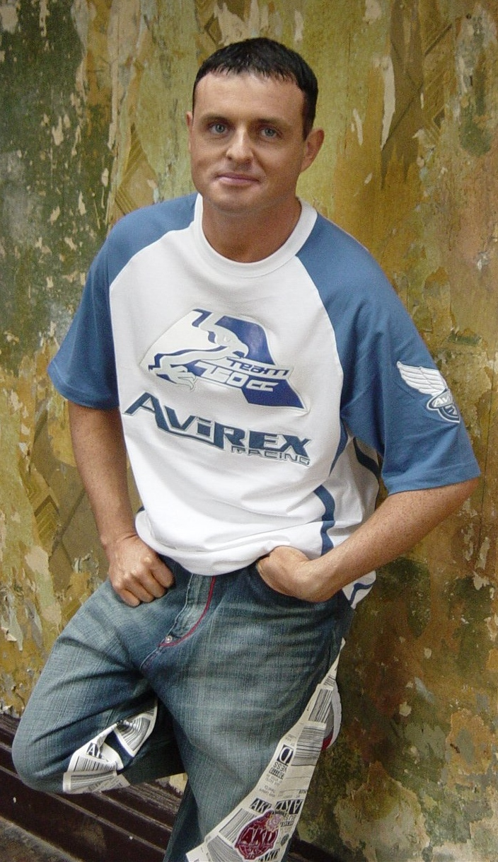 Daz Sampson, taken by Ricardo Autobahn - September 2005